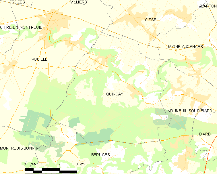 Map of French municipality Quinçay